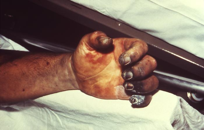 This patient presented with symptoms of plague that included gangrene of the right hand causing necrosis of the fingers.